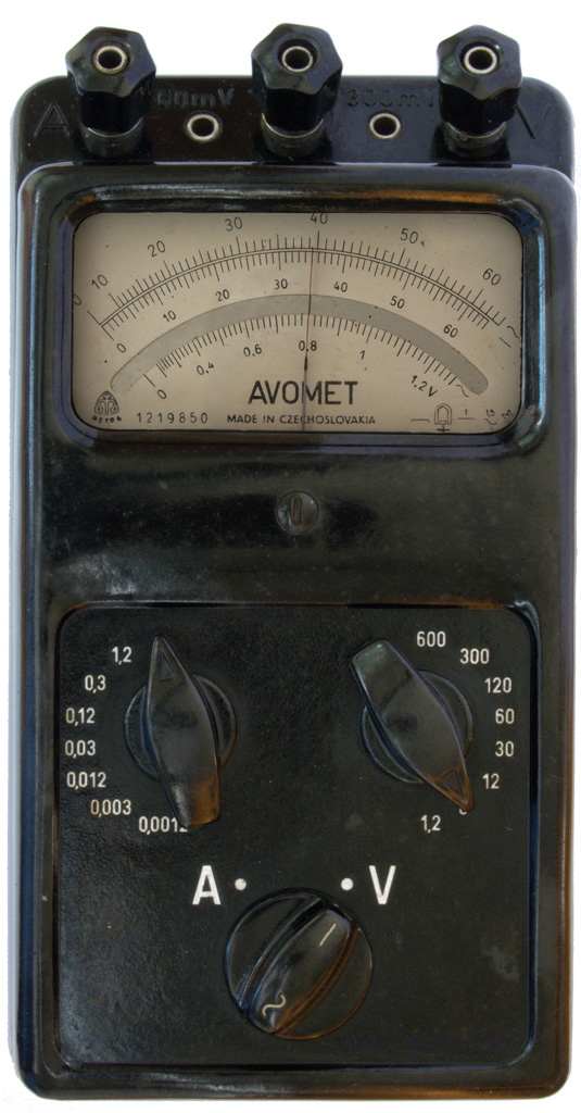 multimeter Avomet front side